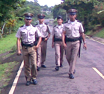 Panama Police Patrol